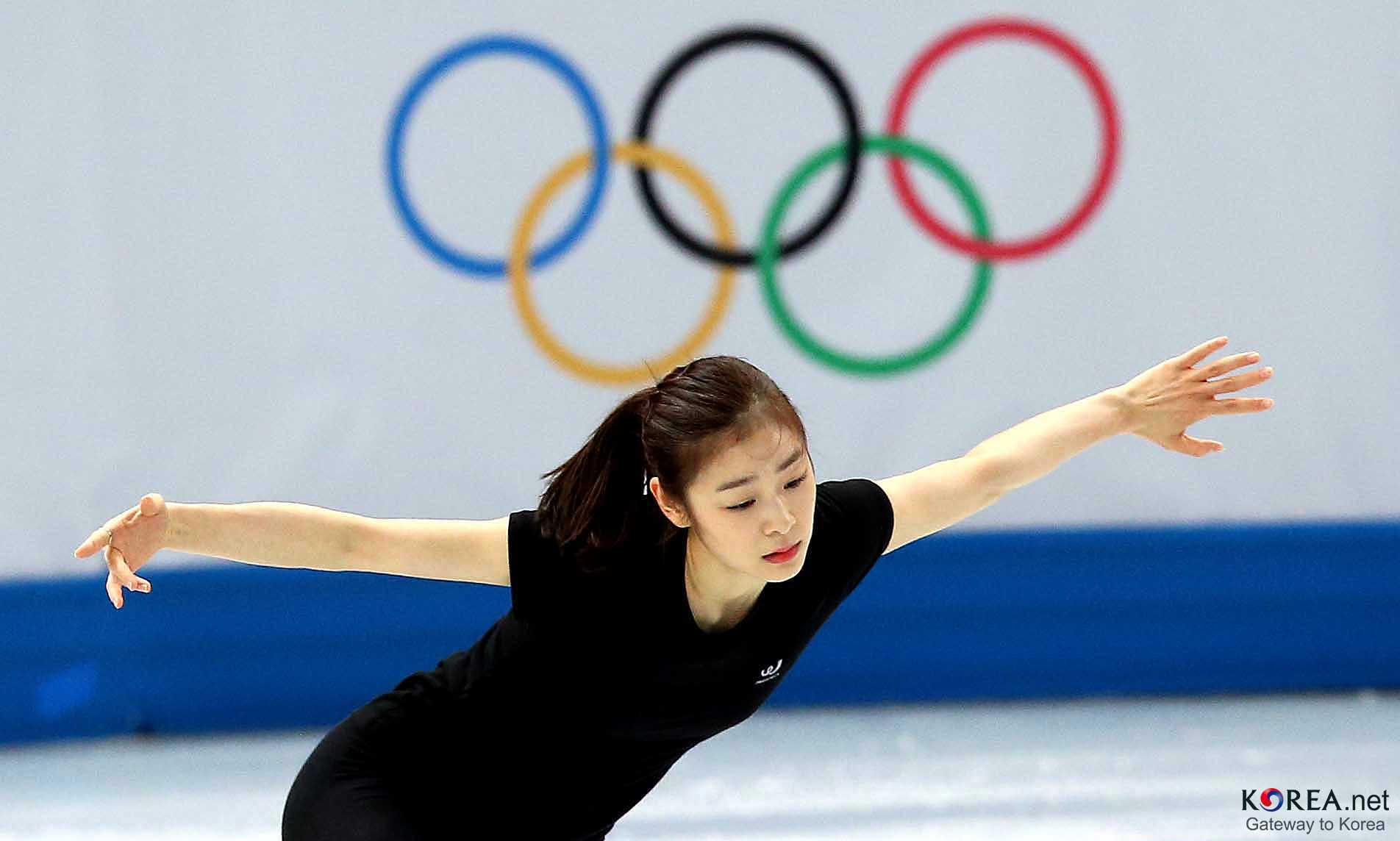 Kim Yuna is training in Sochi. February 16, 2014 Iceberg Skating Palace, Sochi, Russia Photo: The Korean Olympic Committee Related Articles -English- 'Enjoy your time in Sochi': President Olympics team heads to Sochi 2014 소치 동계올림픽 출전을 앞두고 있는 김연아가 훈련을 하고 있다. 2014-02-16 러시아, 소치. 아이스버그 스케이팅 팰리스 사진: 대한체육회